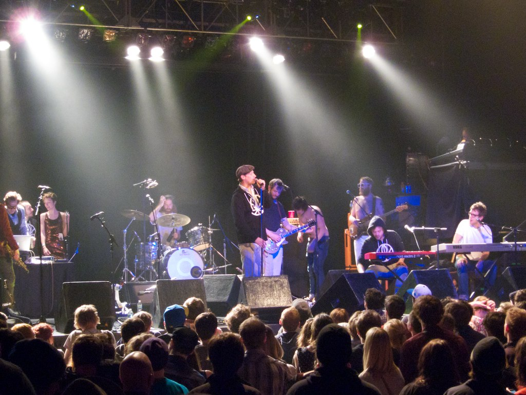 Gayngs Affiliyated Showcase at First Ave.